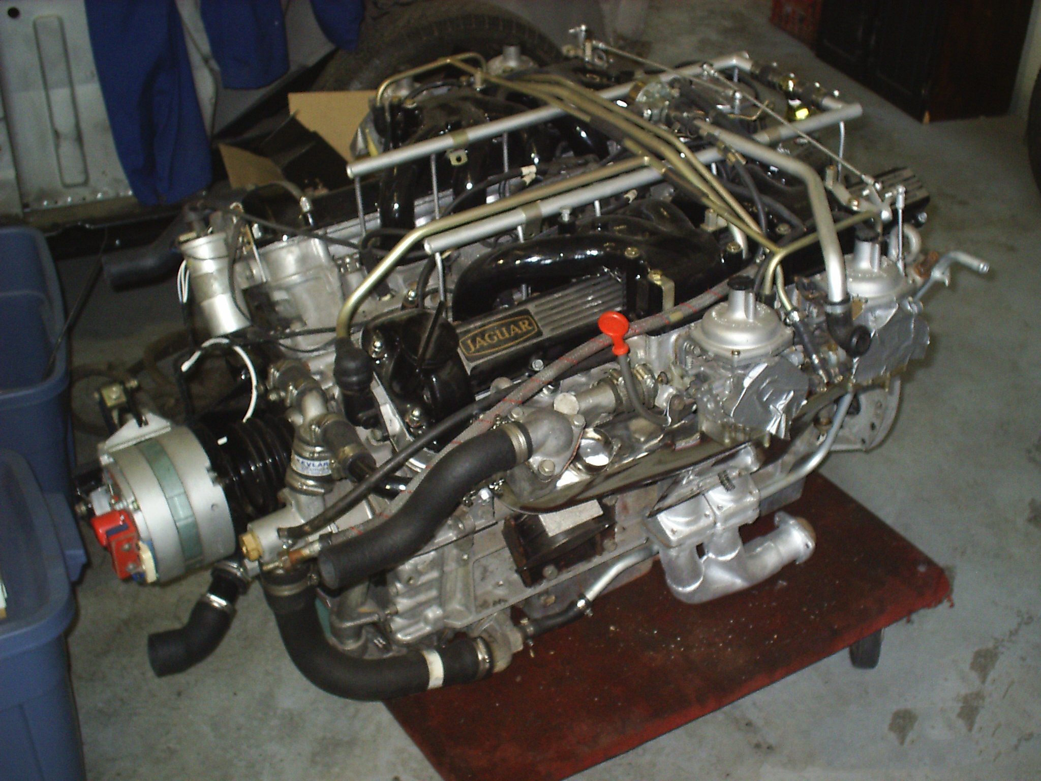 Jaguar V12 engine - this one I believe was out of a Jaguar XKE.